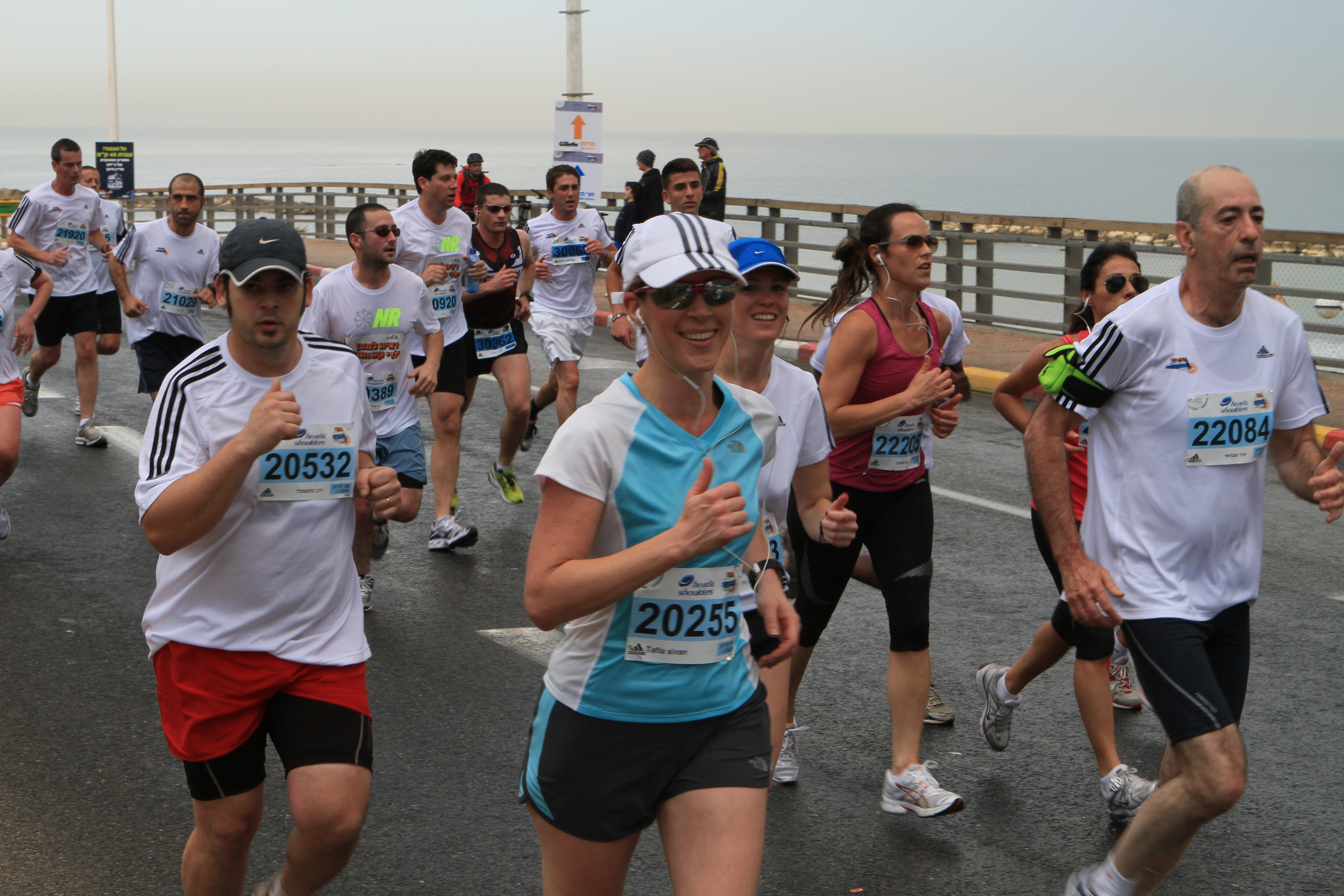 Marthon Tel Aviv - A view on the beach